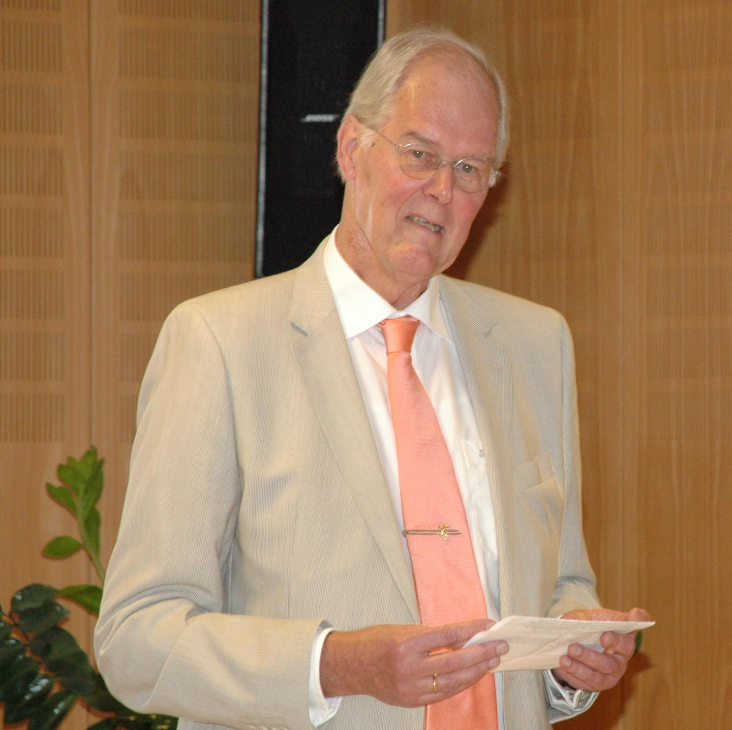 Peter Oster - Geriater